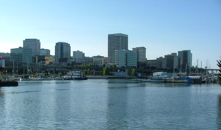 Picture of Downtown Tacoma, as seen from the Thea Foss waterway